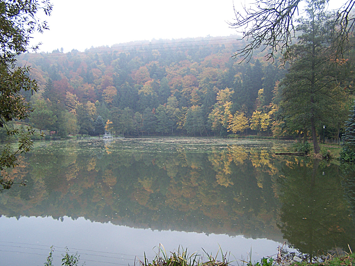 A pice of the lake Frauensee'.